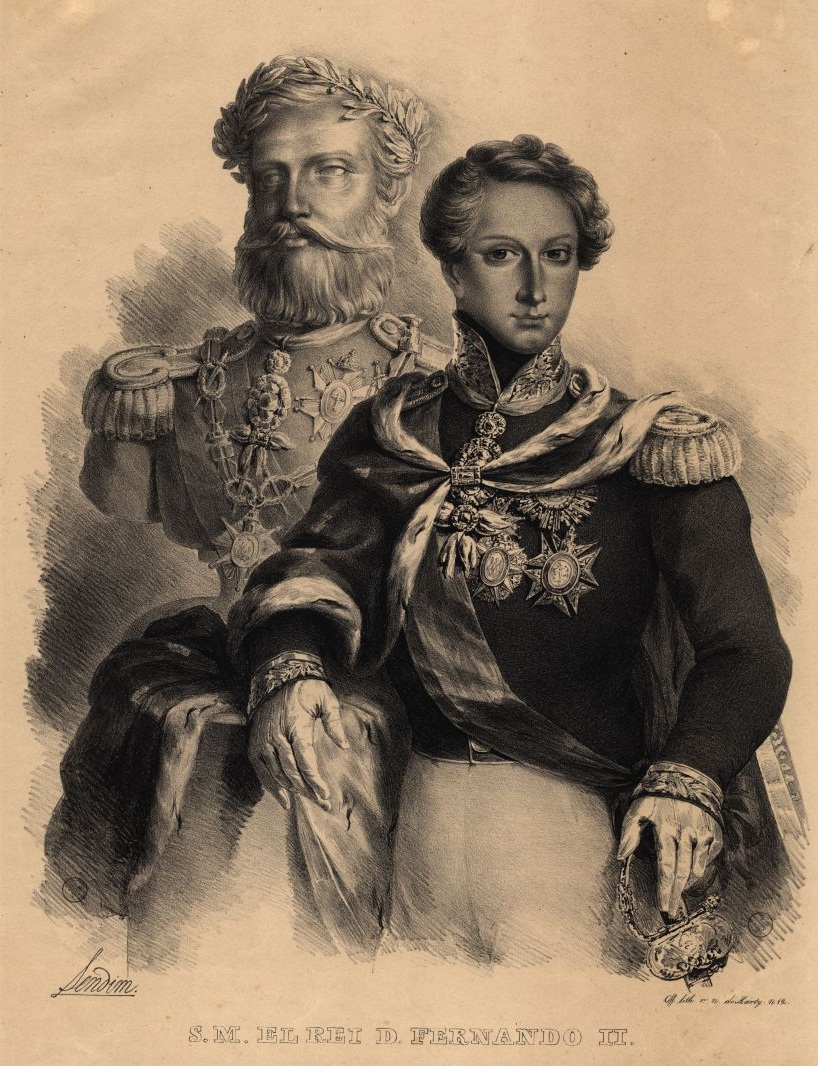 King-Consort Dom Fernando II of Portugal. Behind him there is a bust of King Dom Pedro IV.